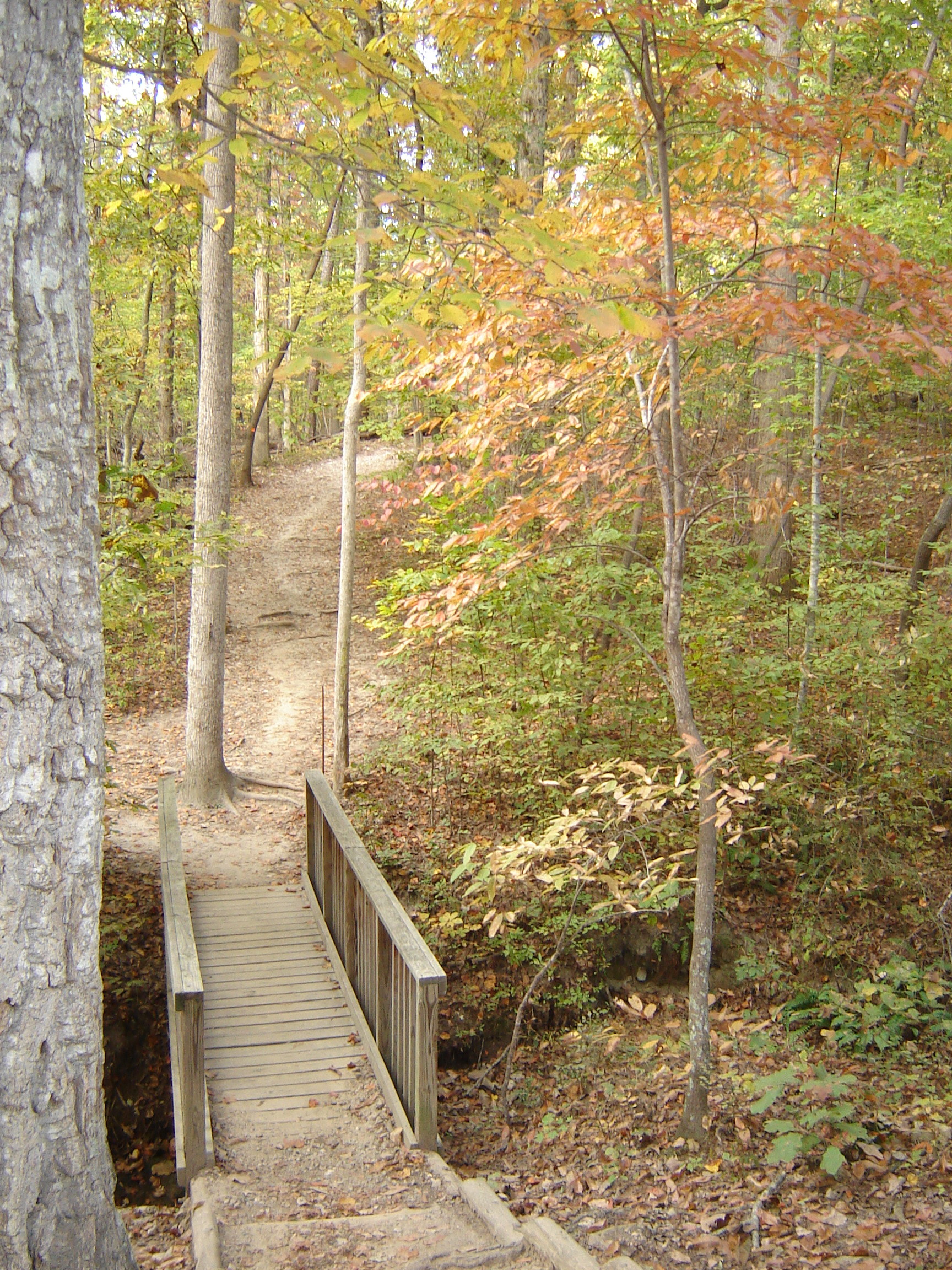 Picture Taken of Umstead park